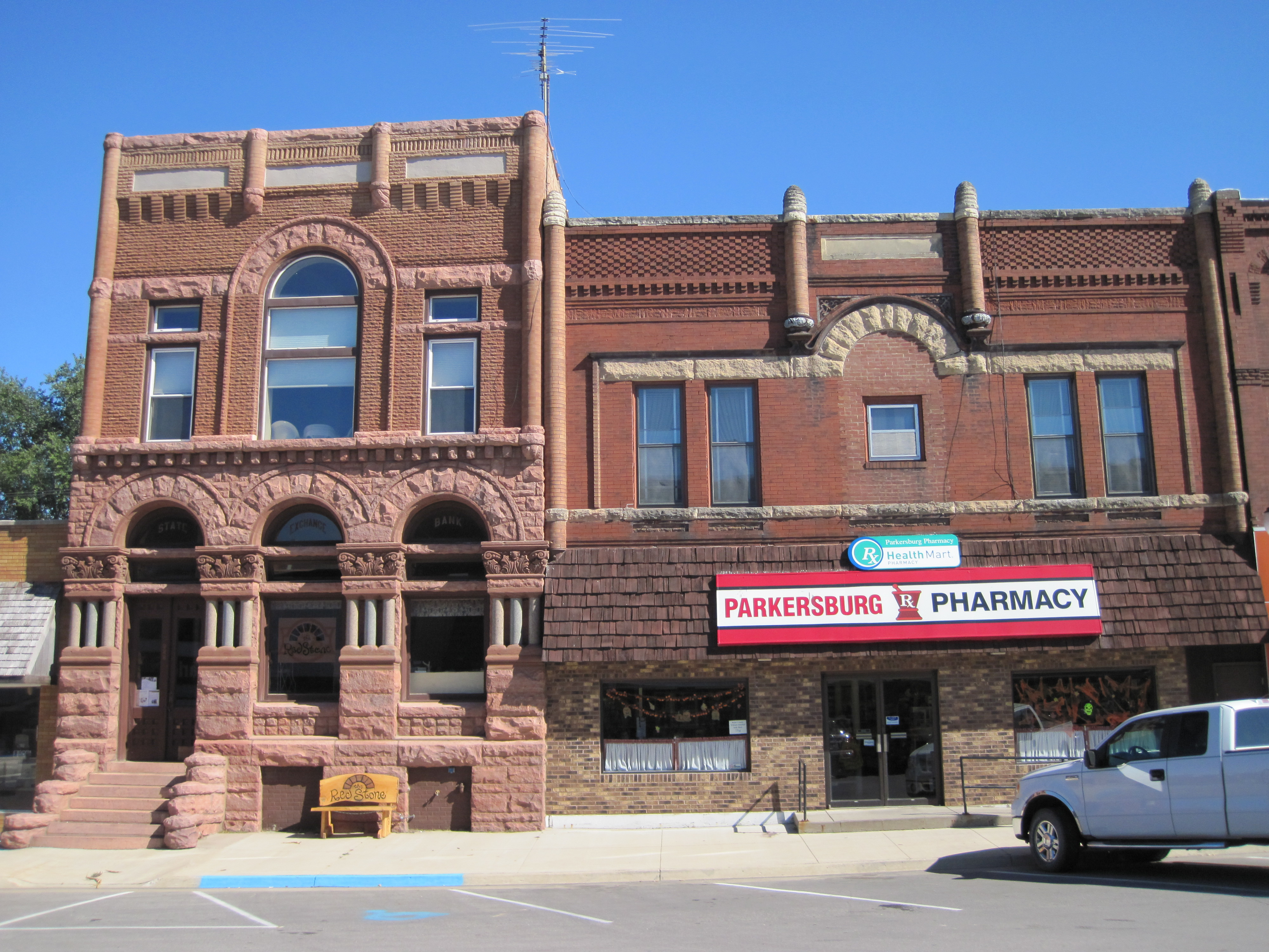 Exchange bank and Pharmacy, Parkersburg. Bill Whittaker (talk) 17:35, 1 October 2009 (UTC)